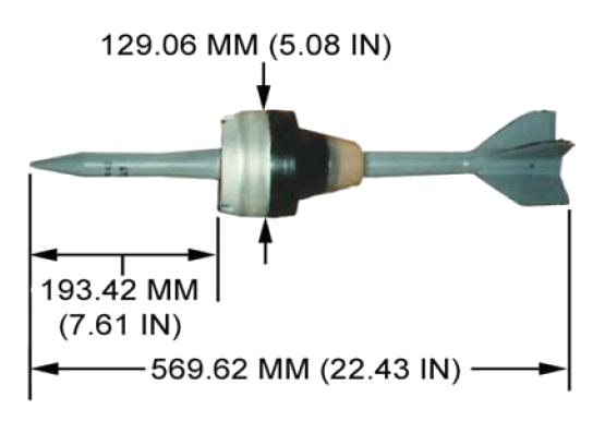 125mm BM-42 APFSDS round